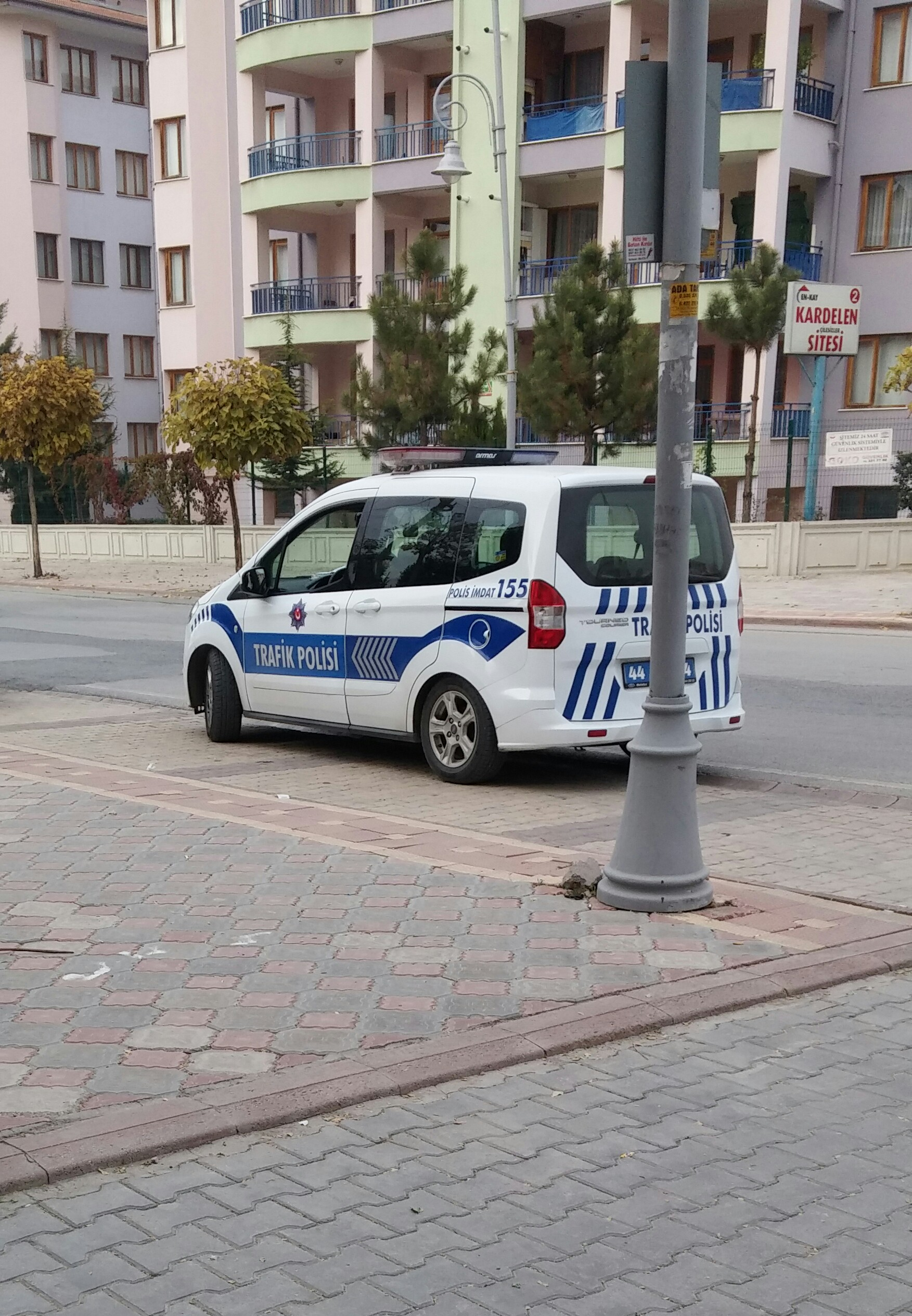 A 2016 Ford Tourneo Courier Police Car, Turkey.